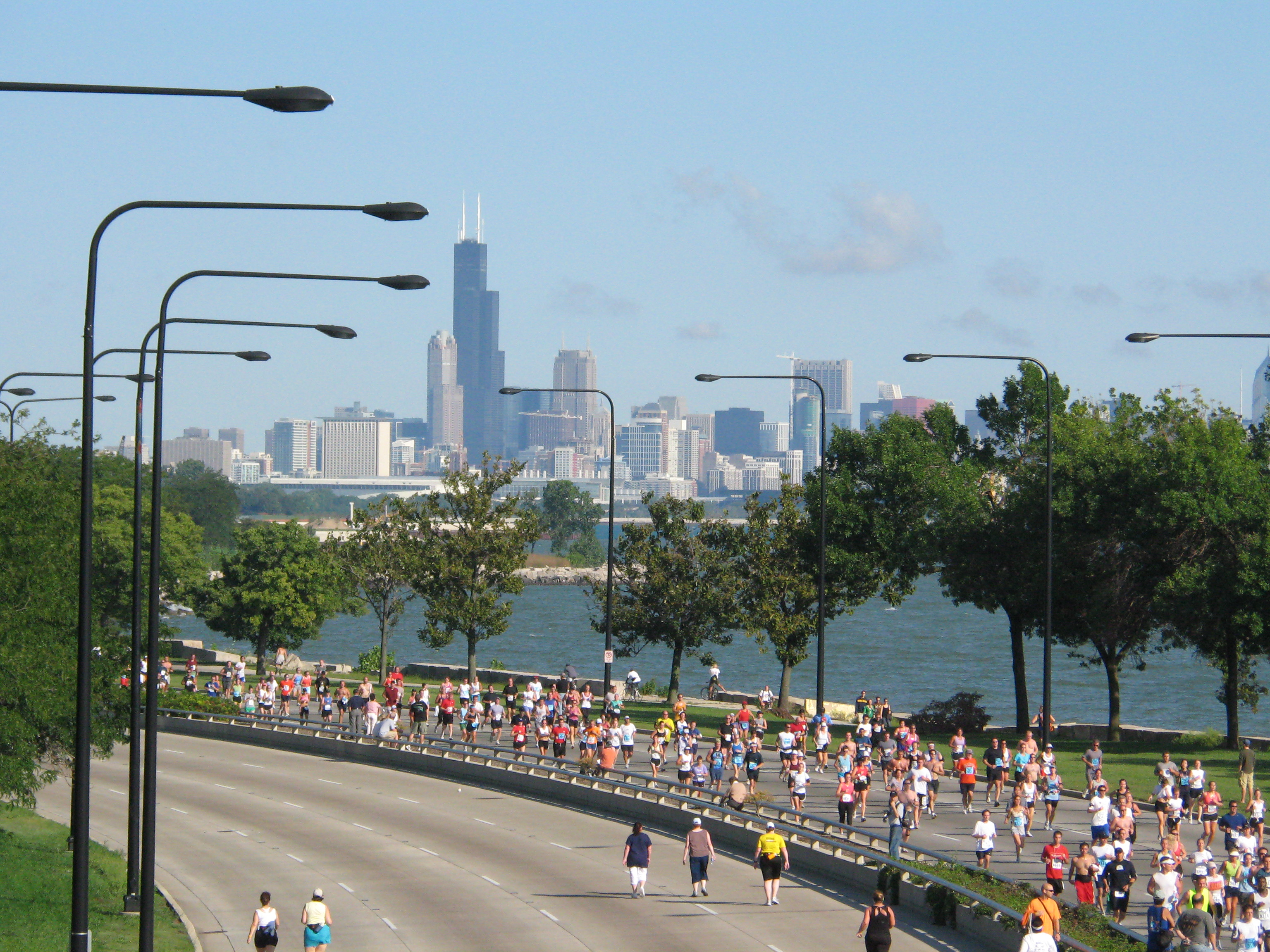 Chicago Half Marathon from 51st street overpass